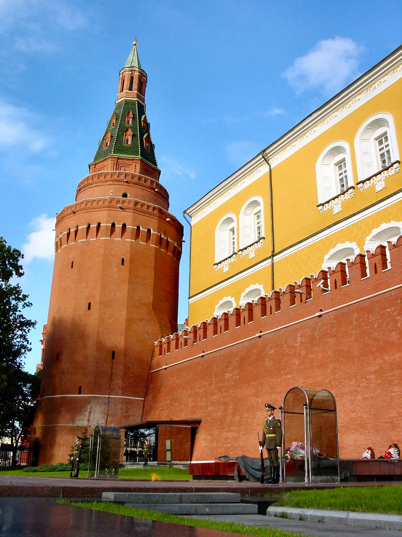 The eternal flame burning by the Tomb of the Unknown Soldier in Alexander (Alexandrovsky) Garden in Moscow, Russia.